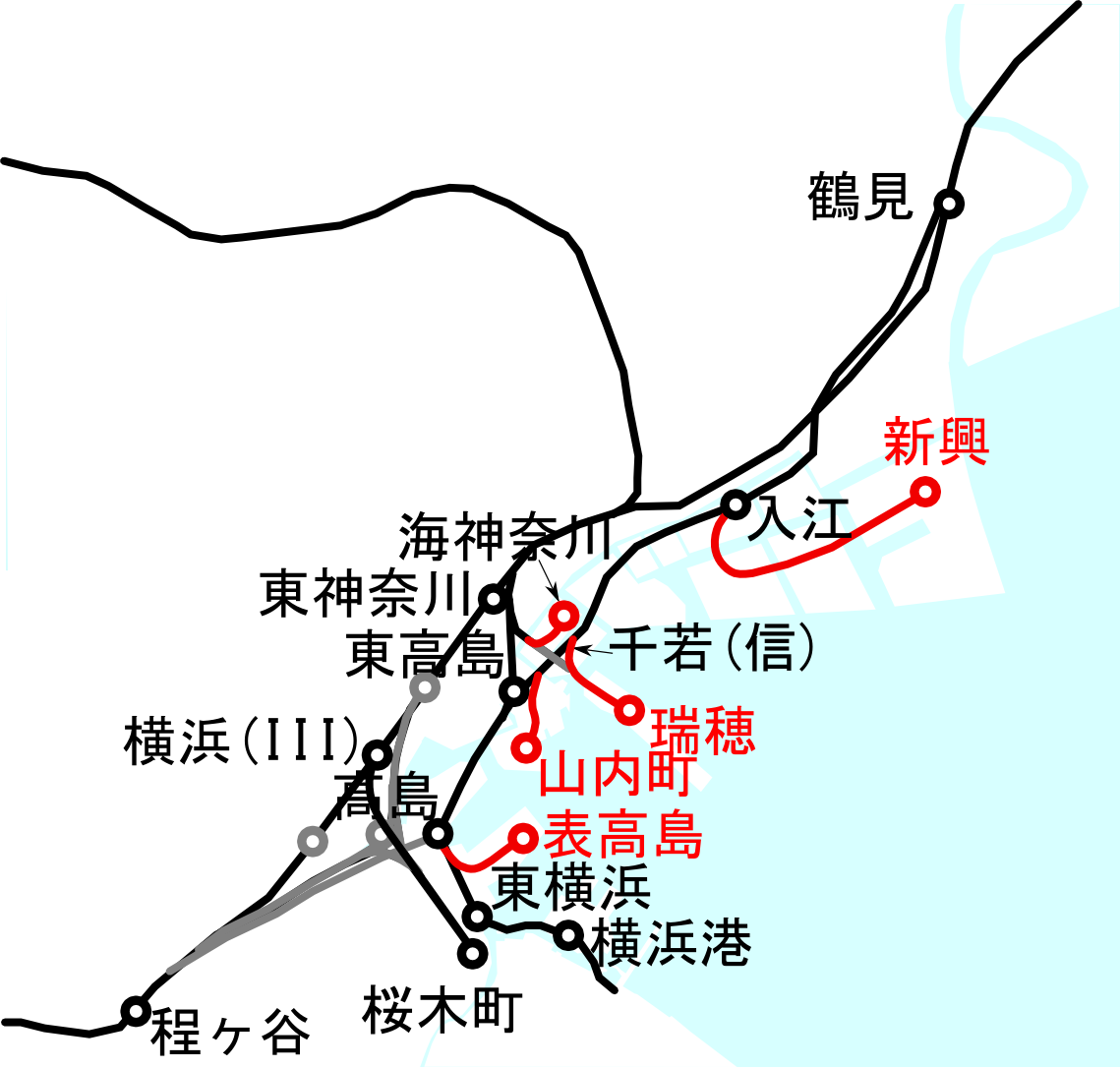 Railway route map around Yokohama port in 1935. New lines / stations since previous map are shown in red. Not changed lines / stations are shown in black. Disused lines / stations are shown in gray. Only national railway network is shown in this map. Many freight branch lines were opened around Yokohama port and industrial area.